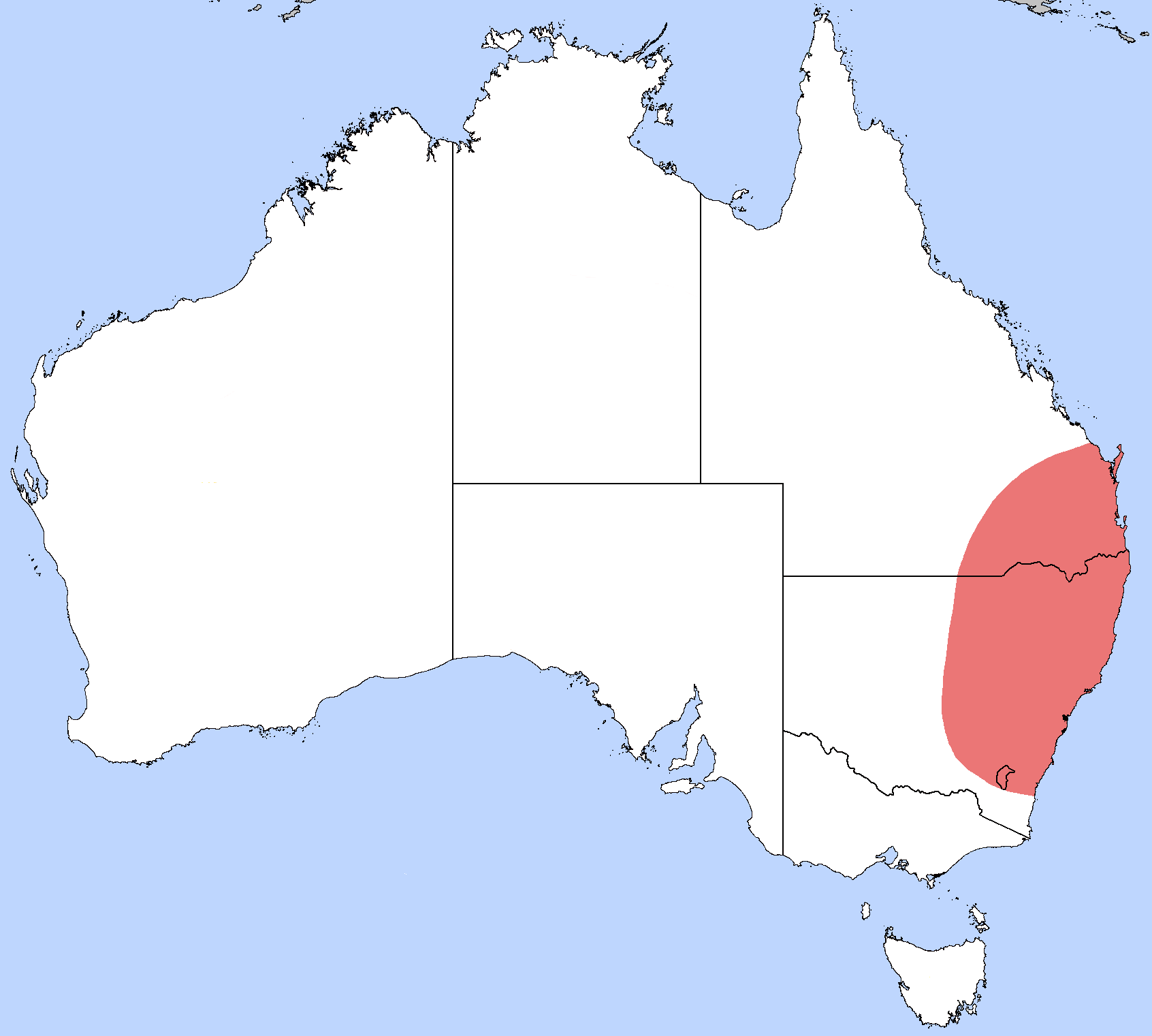 Distribution map of the Red Bull Ant (Myrmecia gulosa) drawn after Myrmecia gulosa (Fabricius, 1775), Ants Down Under, CSIRO Entomology